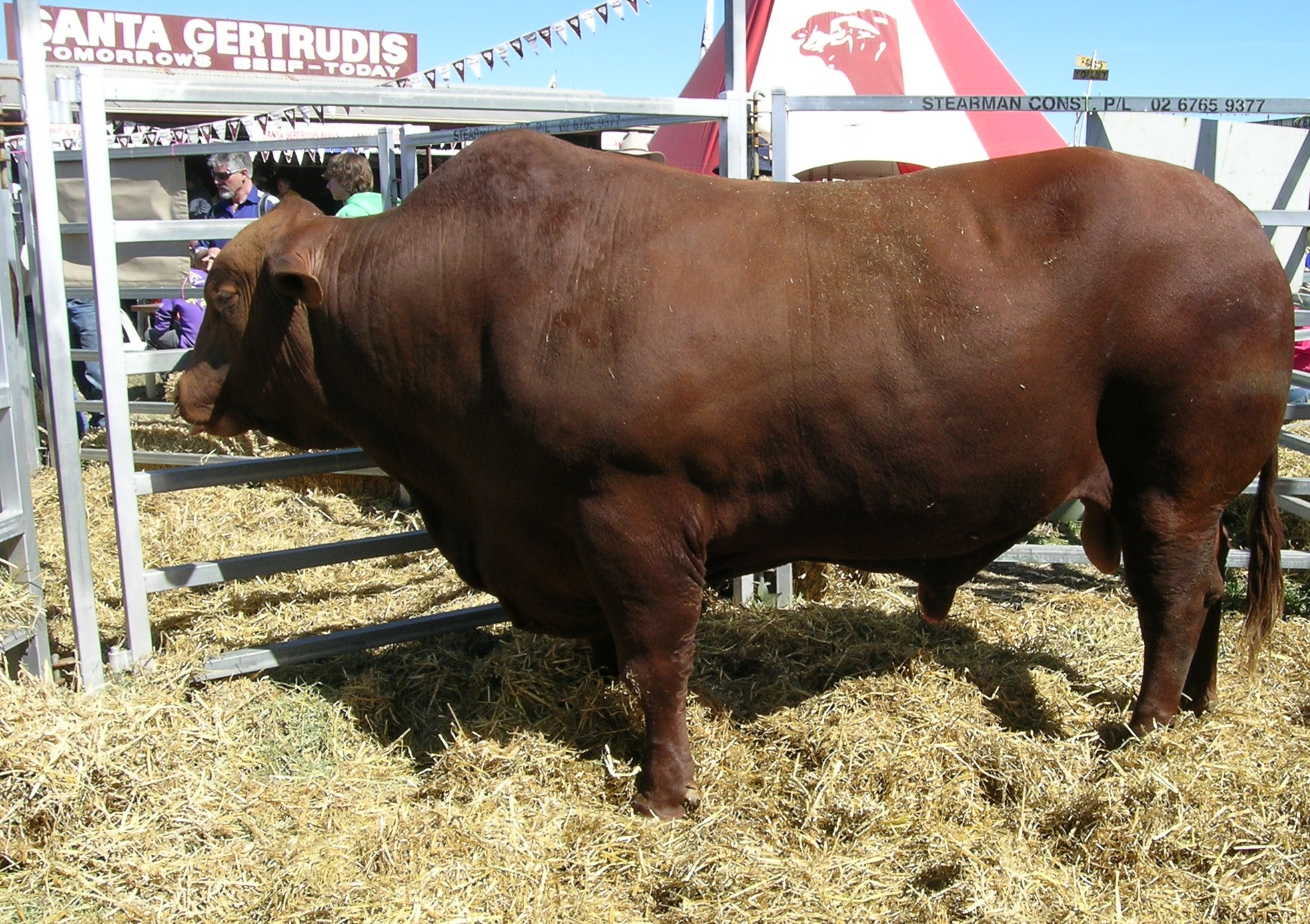 Santa Gertrudis bull at AgQuip, Gunnedah, NSW